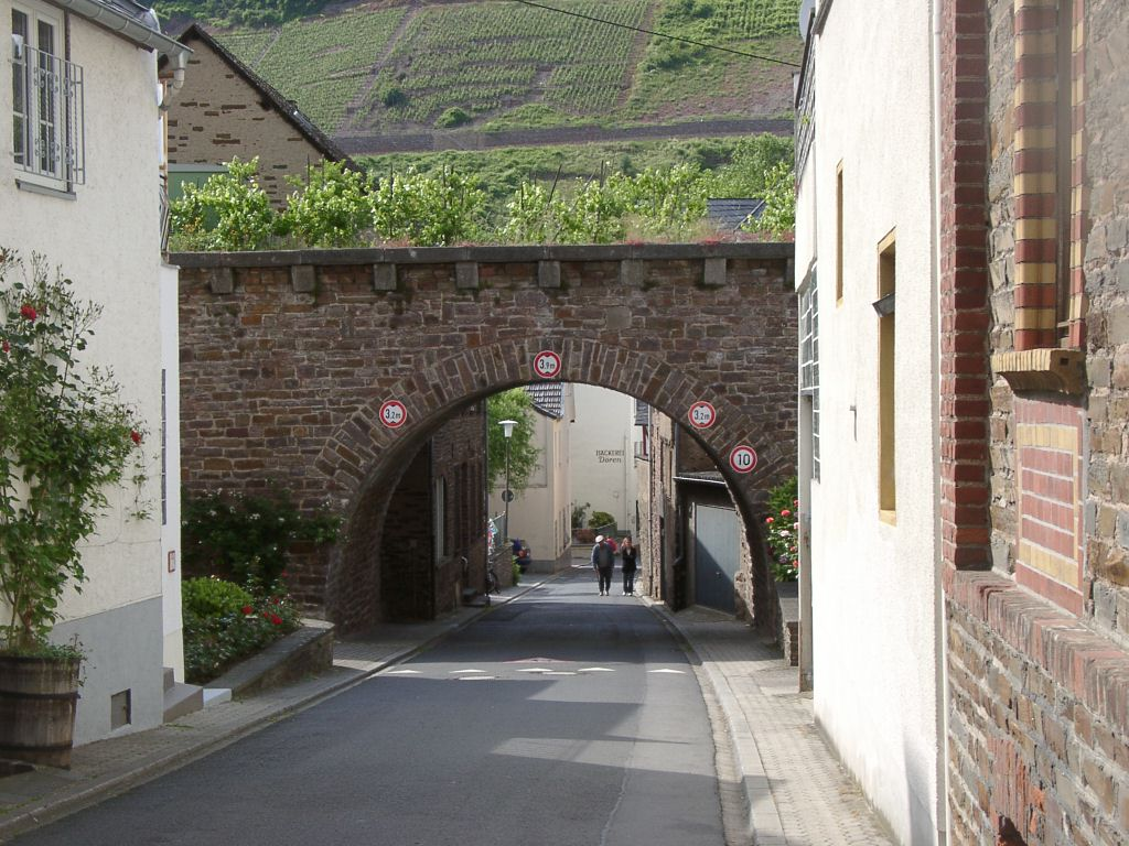 One of the twelve bridges within the railway dam in Bruttig on the Mosel river. Remnant of a planned and partially built, but never completed strategic railway. Note the vineyard on top of the dam.